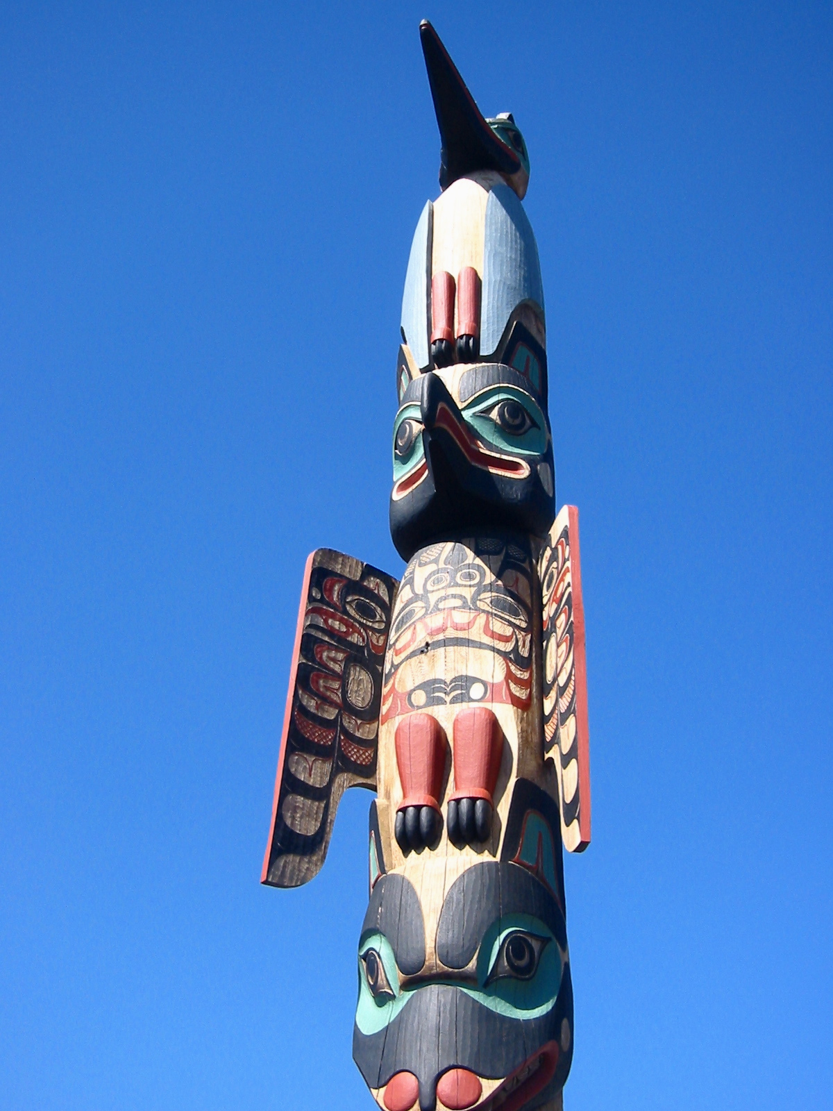 Crane, eagle, bear. Ketchikan, Alaska. Native American totem pole.